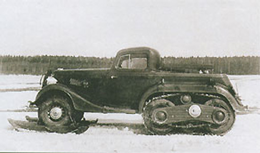 Soviet experimental half-track car GAZ-VM with pickup body during the state tests, left view.